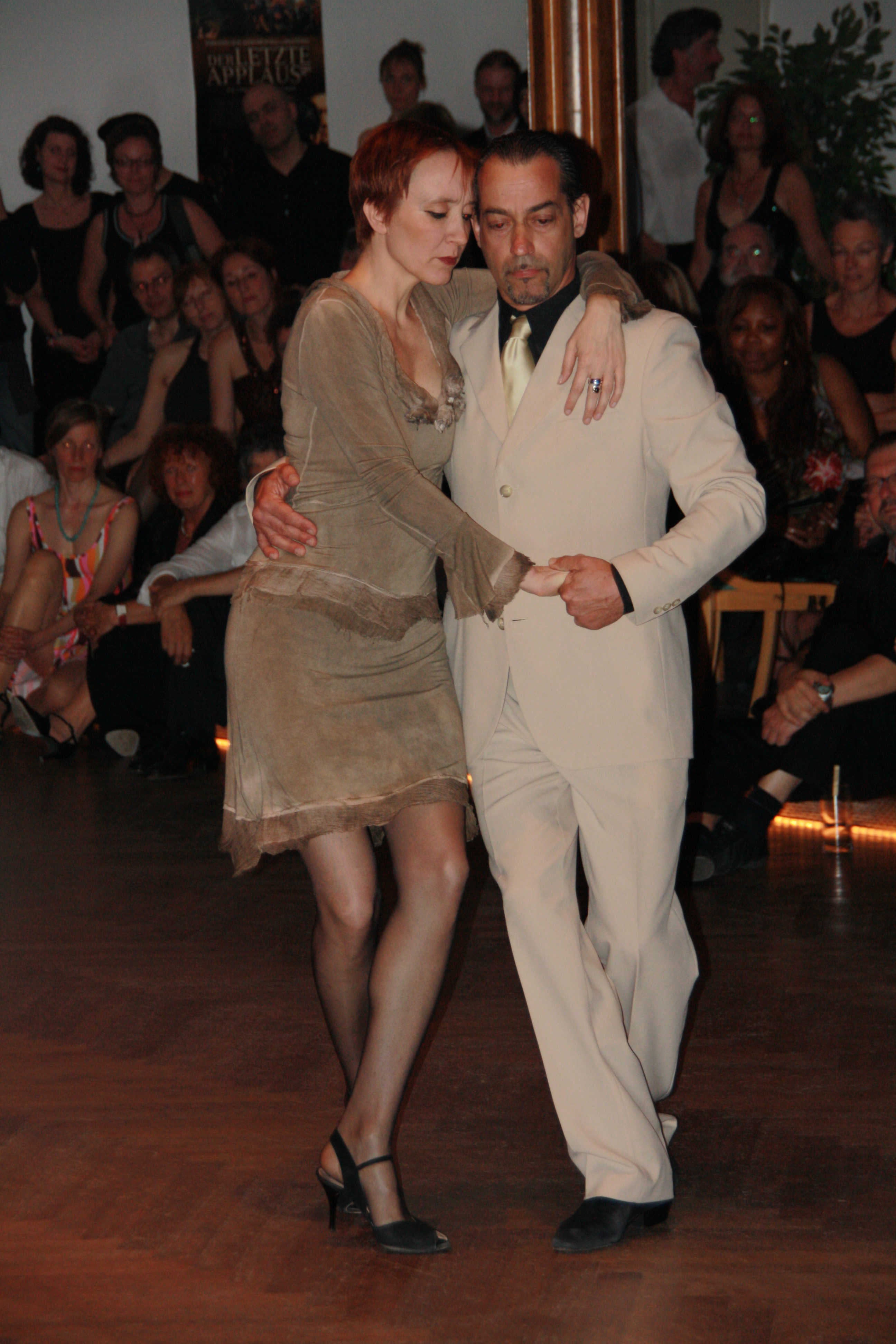 Alberto Muraro and Marta Lorenzi perform a tango in canyengue-style at a show in Bamberg